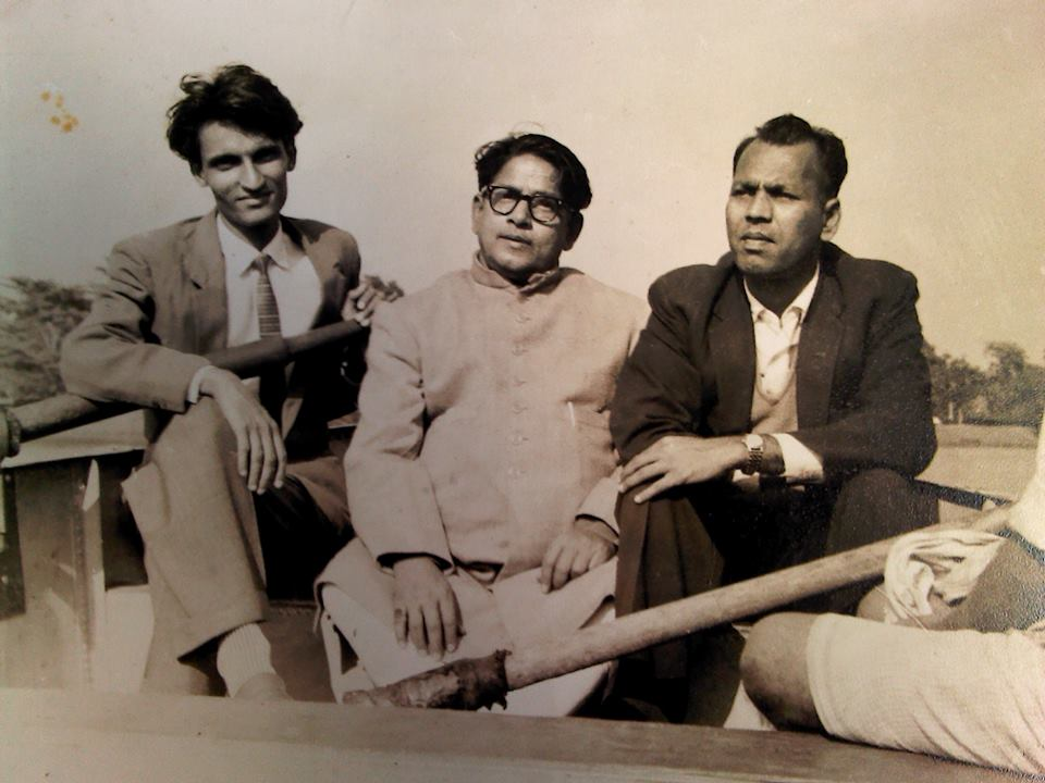 This ia a photograph from Dinesh Bhramar's album. In the middle is Nazeer Banarasi, Dinesh Bhramar is sitting to the right of him and Bholanath Bimb is at left. They were amongst the prominent non-film lyricist of Hindi during 1960s and 70s. Nazeer wrote: "मेरा मन है गोकुल की तरह साफ़ सुथरा/ मेरी सांस ऐसी की जैसे कोई बांसुरी बजाये/ मेरी एक आँख गंगा मेरी एक आँख जमुना/ मेरा दिल खुद एक संगम जिसे पूजना हो आये l" ("My mind is as clean and pure as Gokul/ My breath, as if some plays the flute/ One of my eyes is the Ganga, the other the Jamuna/ my heart is a Sangam where all worshipers are welcome") Photograph was taken in 1964 at Varanasi, India.